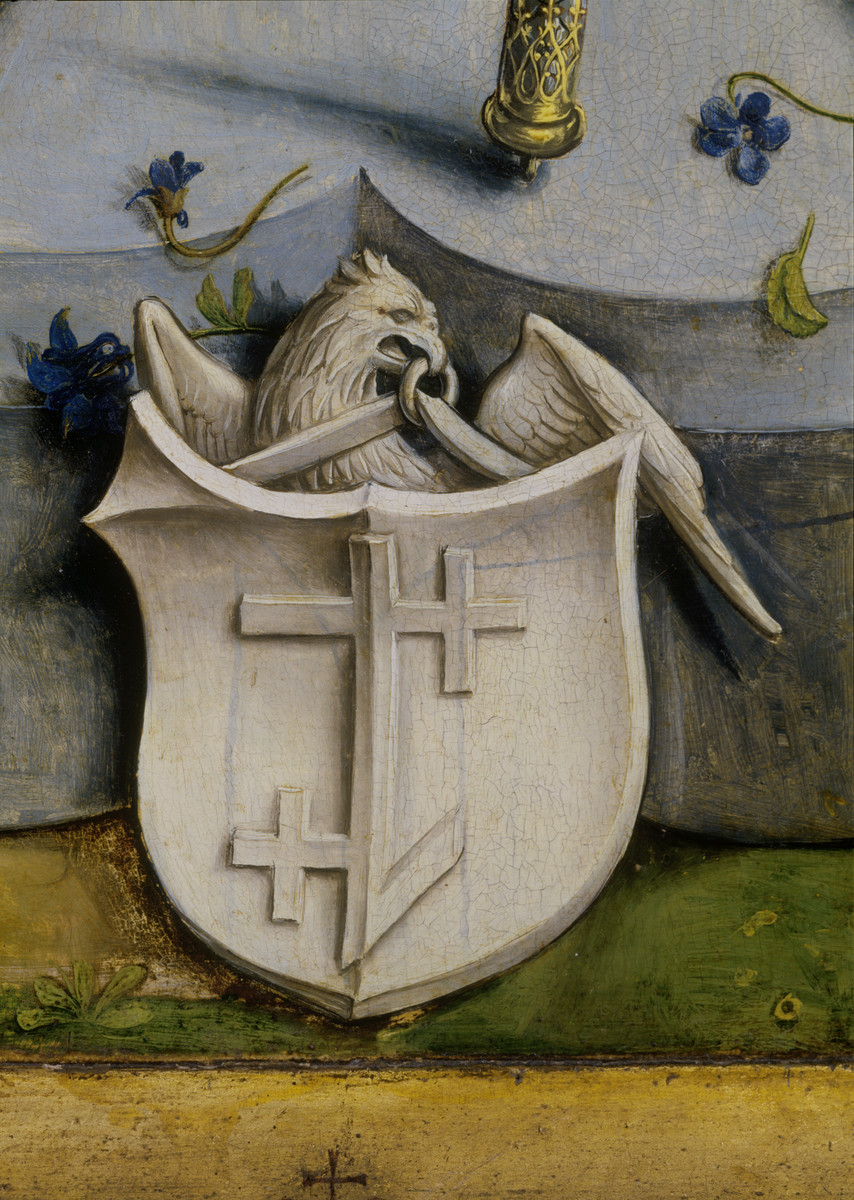 Retable de Saint Thomas - blason des Rinck